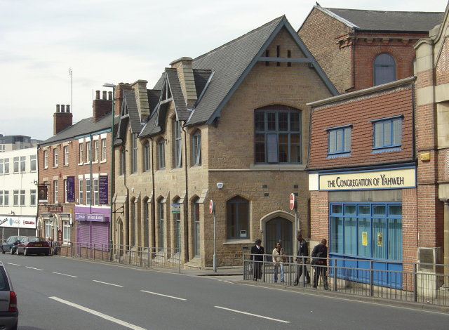 St Luke's Parochial Schools An attractive Victorian building of 1864 by Frederick Bakewell in local stone, it has been well refurbished in recent years. It has had a succession of business occupiers for several decades.